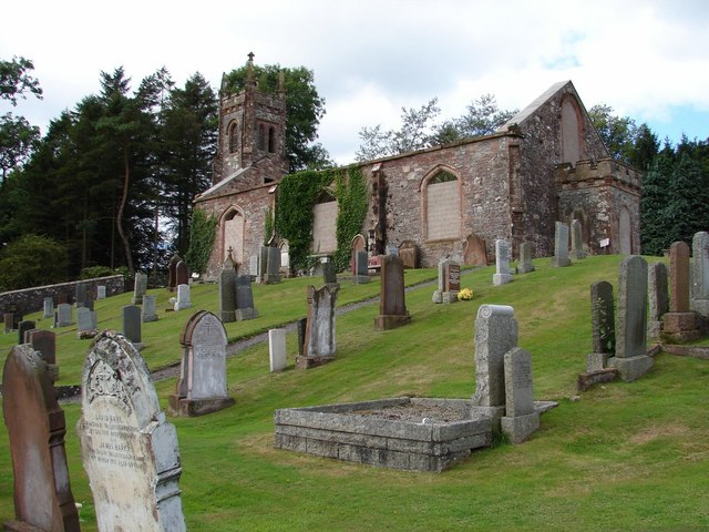 Tongland Church & Churchyard Tongland Parish Church (1813): Tudor style with tower - now roofless and neglected. The churchyard contains remains of the older church (1773), fragments of a C12 abbey and the Neilson of Queenshill Mausoleum.